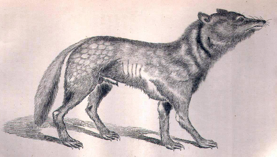 Canis lupus hodophilax from The Chrysanthemum, A Monthly Magazine for Japan and the Far East, Volume I and II, 1881-2, Yokohama.